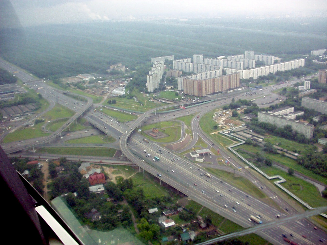 MKAD and Yaroslavskoe shosse freeway interchange in northern Moscow